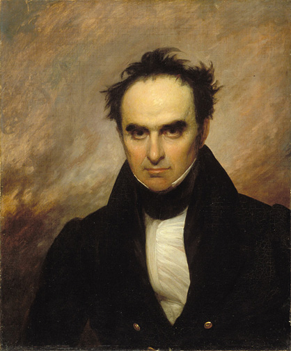 1834 Francis Alexander painting of Daniel Webster, which was commissioned in honor of his Dartmouth College vs. Woodward defense.